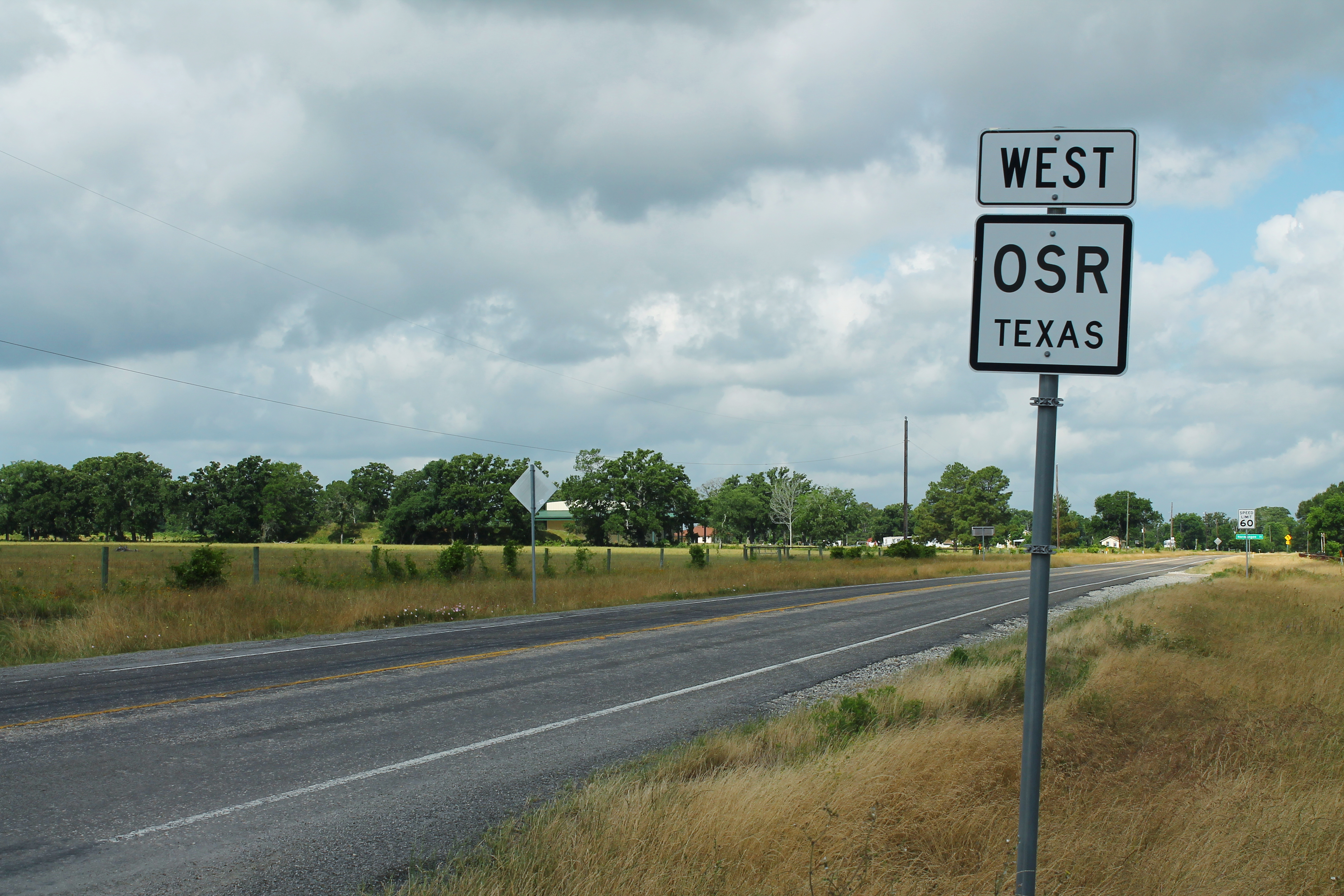 A sign for Texas State Highway OSR, located west of Normangee, Texas near Interstate 45.